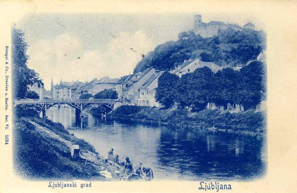 1890s postcard of Ljubljana.